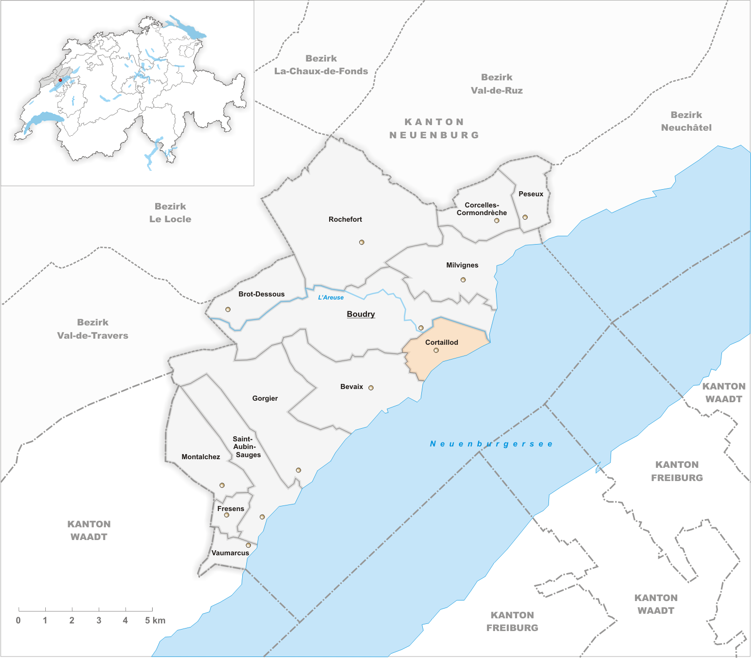 Municipality Cortaillod